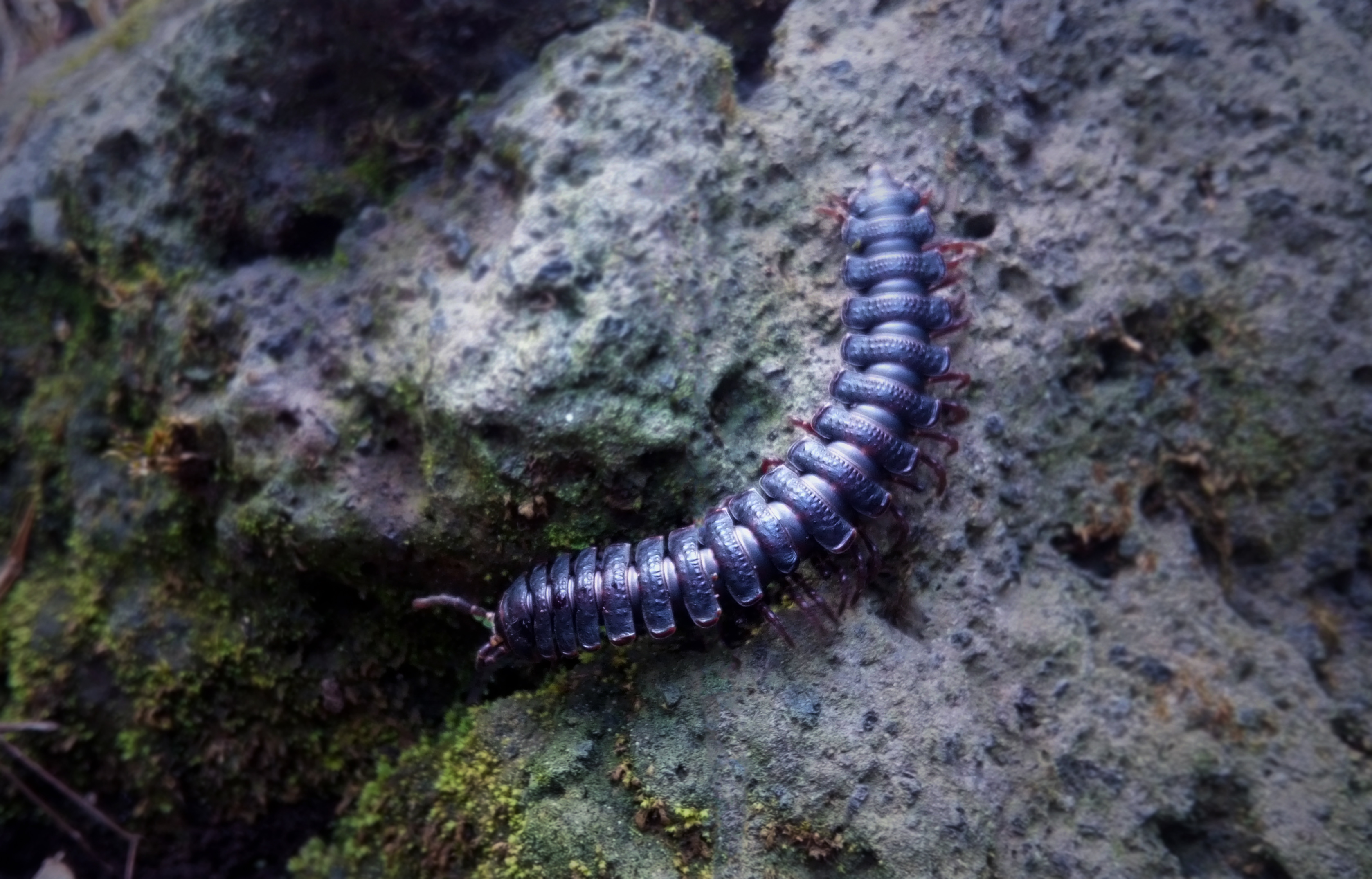 Flat millipede found in the Mount Cameroon Forest Reserve, Buea, South West Region, Cameroon.